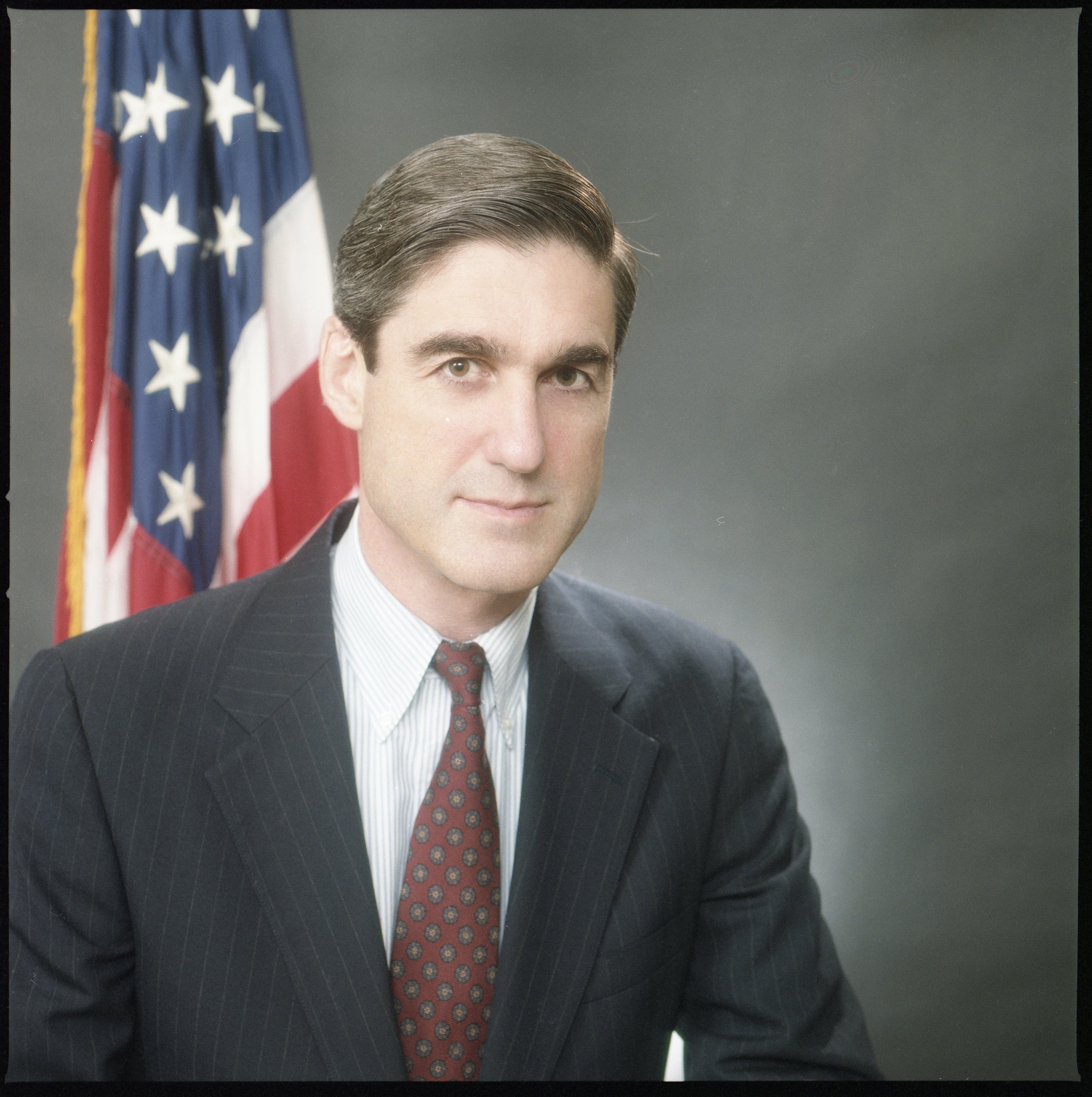 Portrait of Robert Mueller, Criminal Staff, Department of Justice, 1992